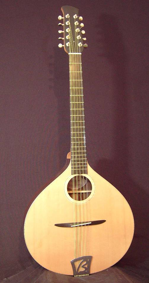 Cittern (Fr: Cistre) 10 strings by Marc Boluda